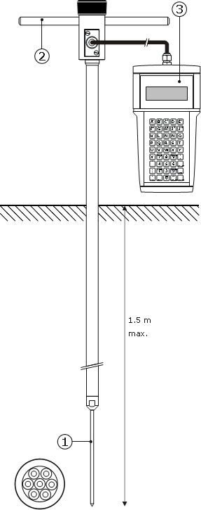 soil thermal conductivity measurement system huksflux FTN01